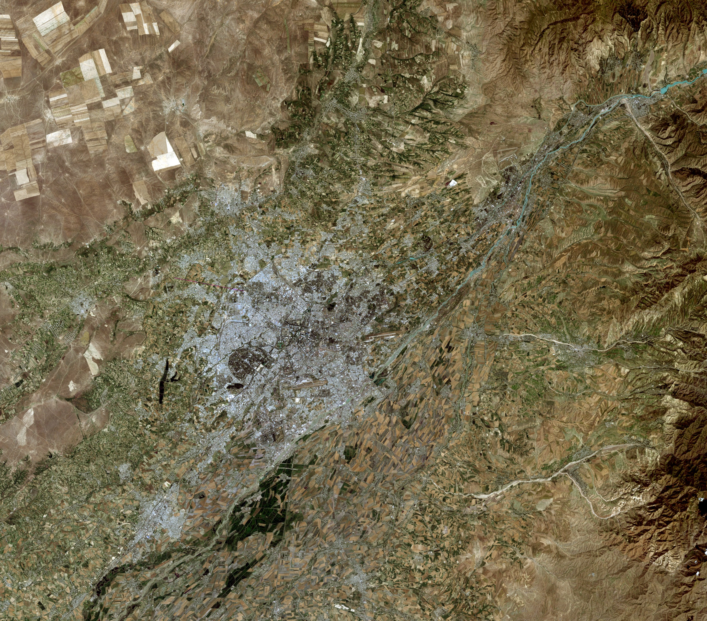 Tashkent, Uzbekistan, city and vicinities, satellite image LandSat-5,2010-06-30, near natural colors, 30 m resolution